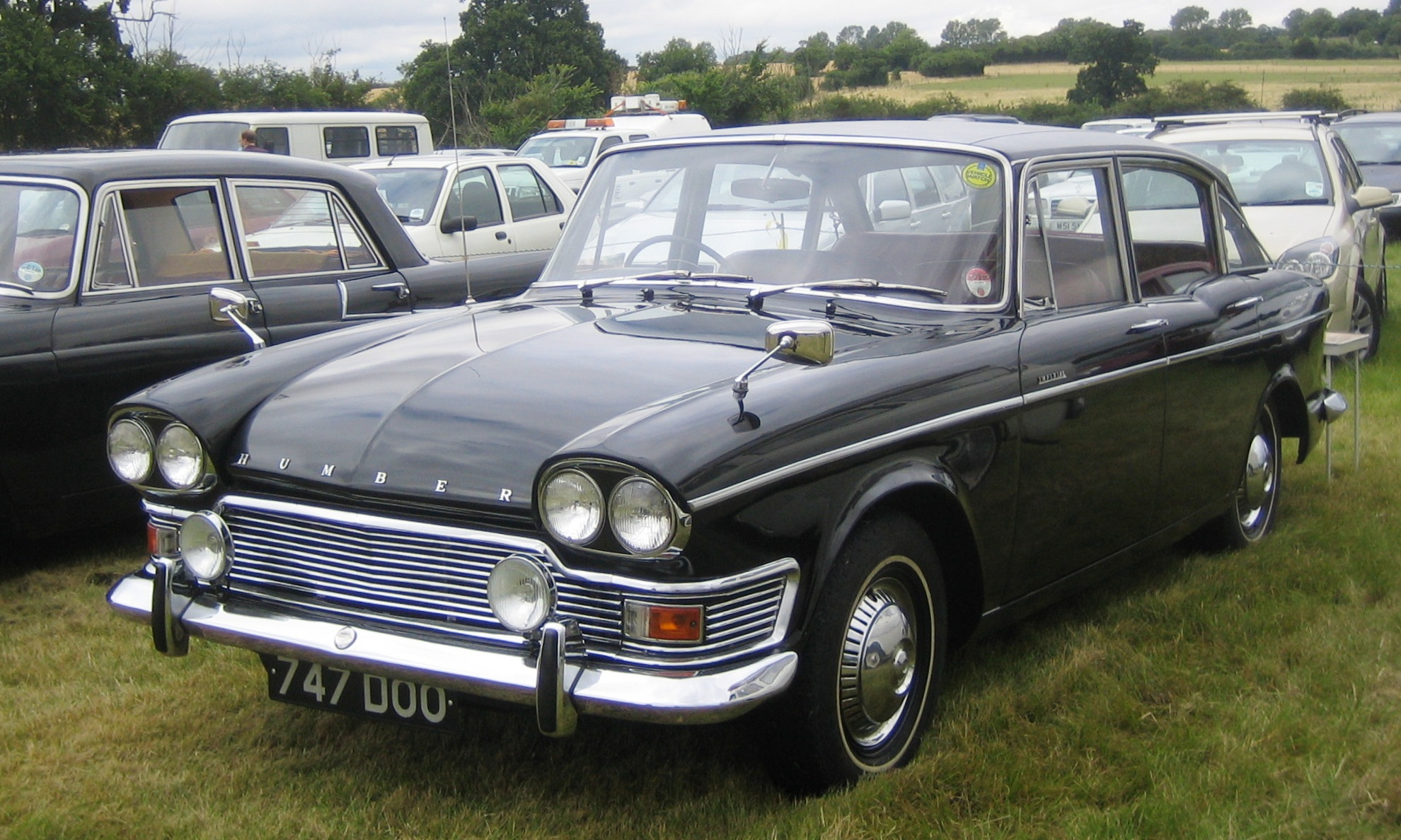 Humber Imperial built ca 1966. One of the last of the big Humbers.